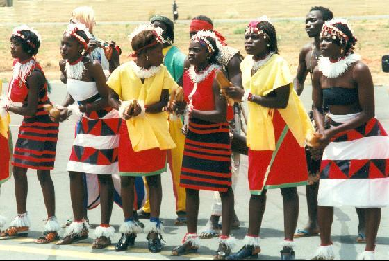 Banjul, traditional dance, Yundum airport